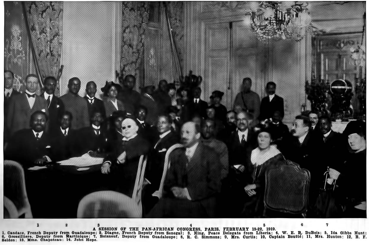 A session of the Pan-African Congress, Paris, February 19-22, 1919. Image from "Crisis, A Record of the Darker Races", (Vol. 18, No. 1, May 1919) From vieilles annonces. Listed people: Gratien Candace